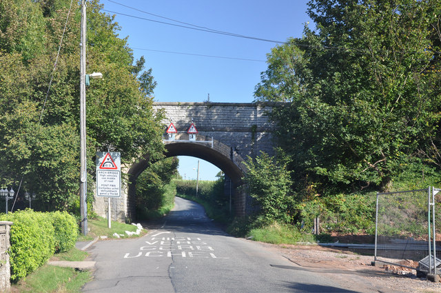 Dis-used railway bridge, Swanbridge Road - Sully